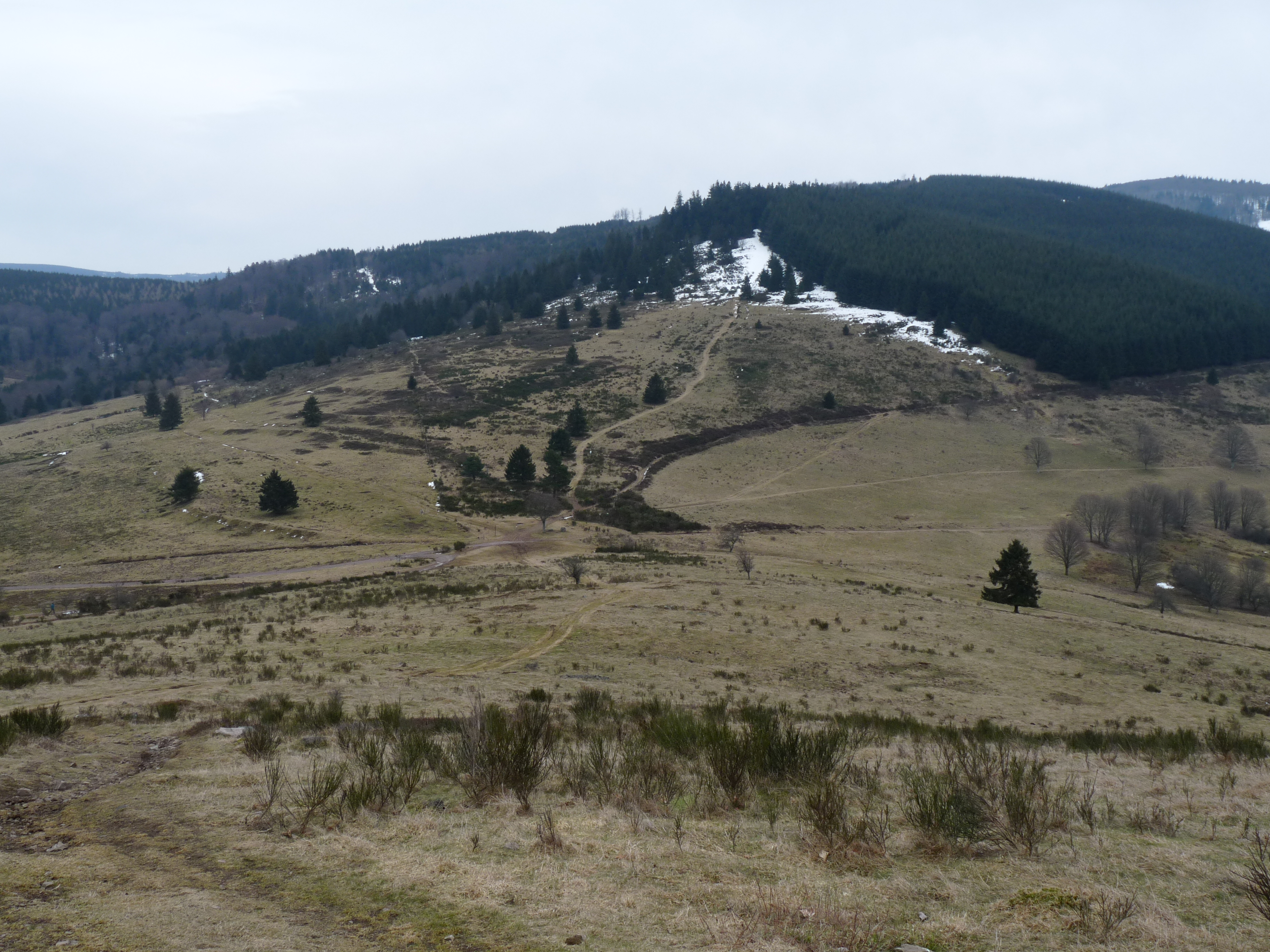 Mountain pass of la Perheux (Bas-Rhin)